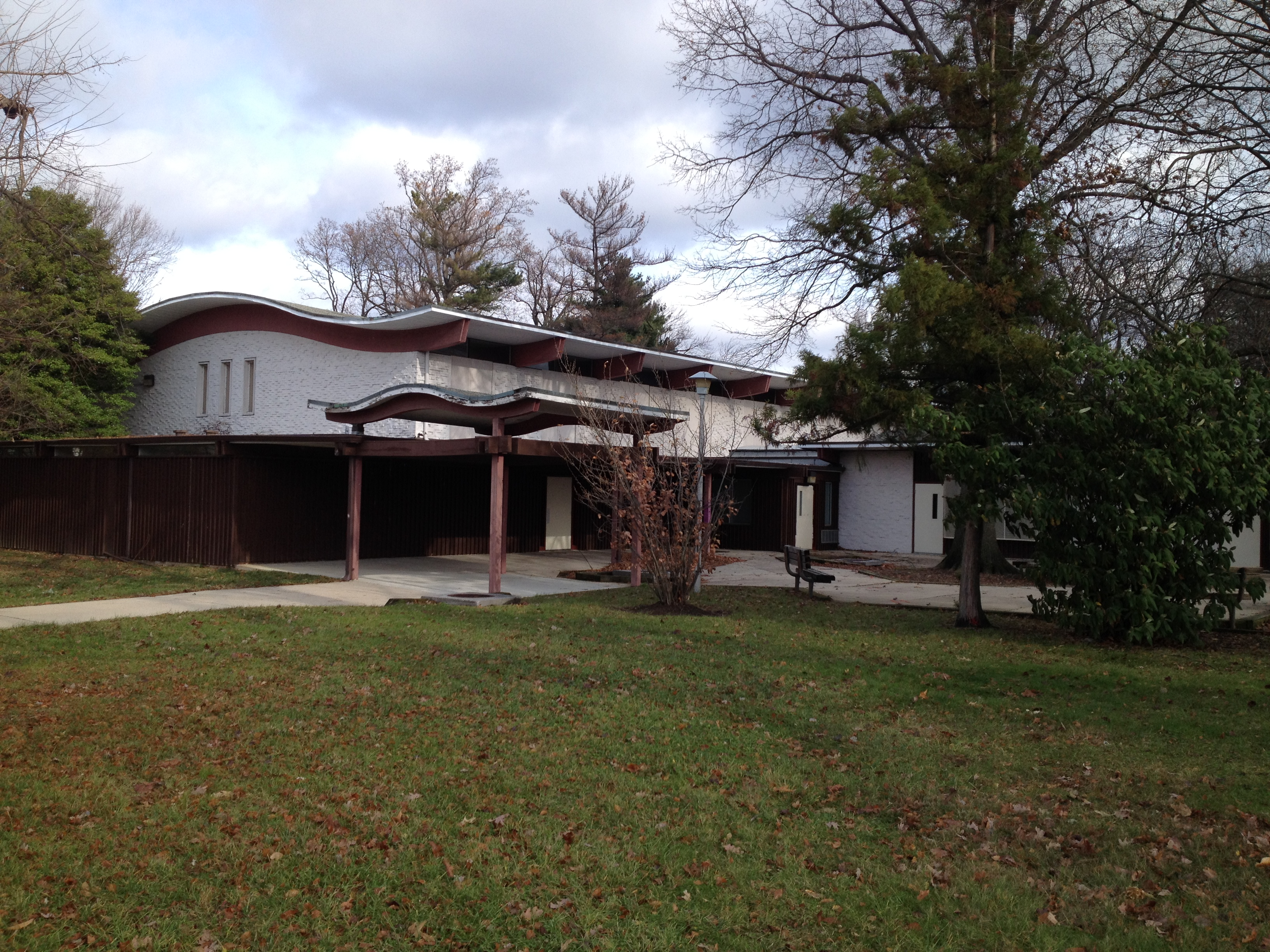 Outside the Wheaton Youth Center